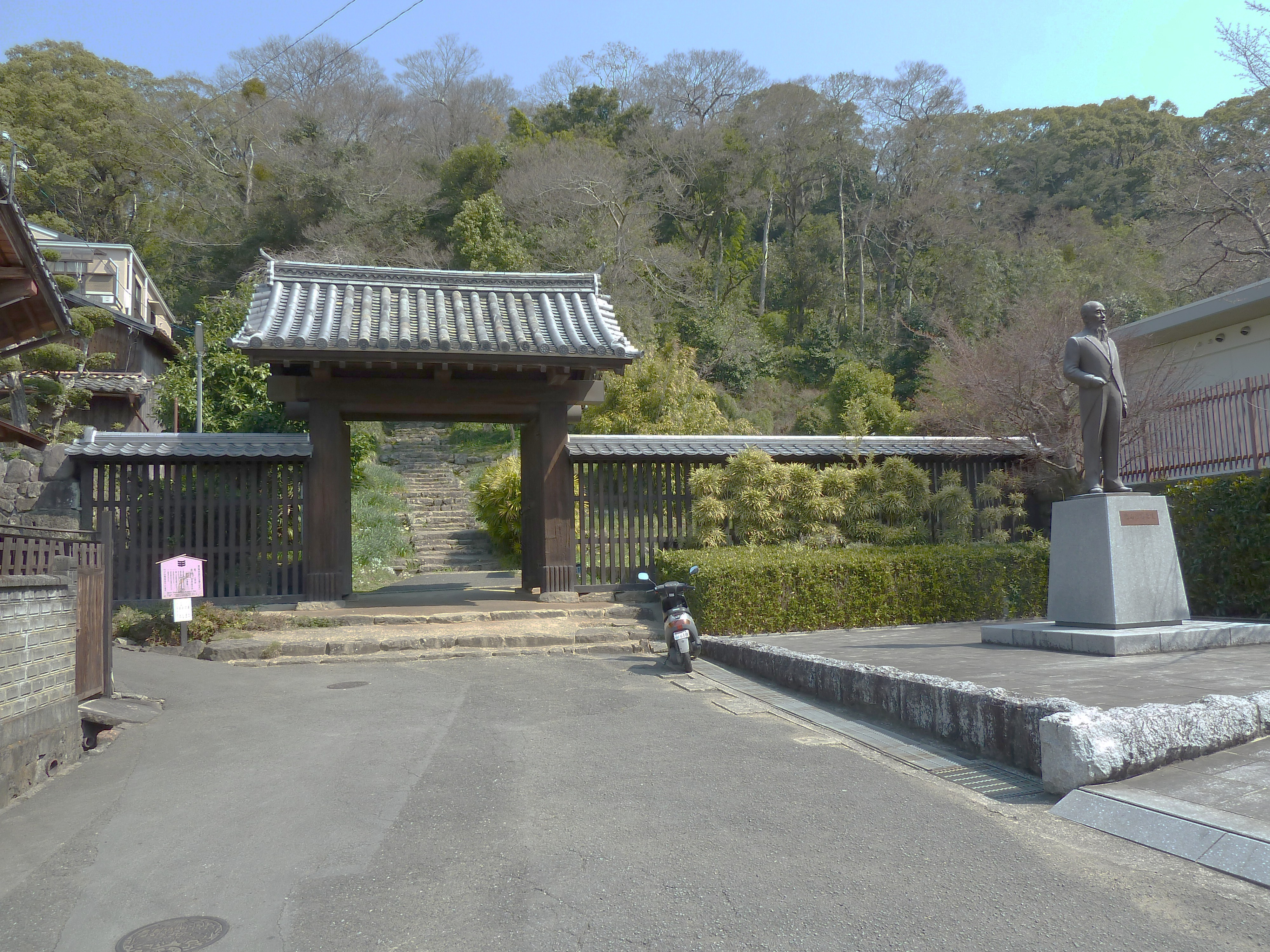 宇和島城に残る上り立ち門